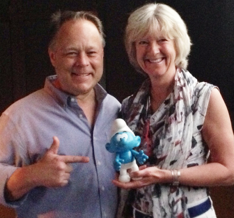 Kelly Asbury and Veronique Culliford (daughter of Smurfs creator, Peyo)